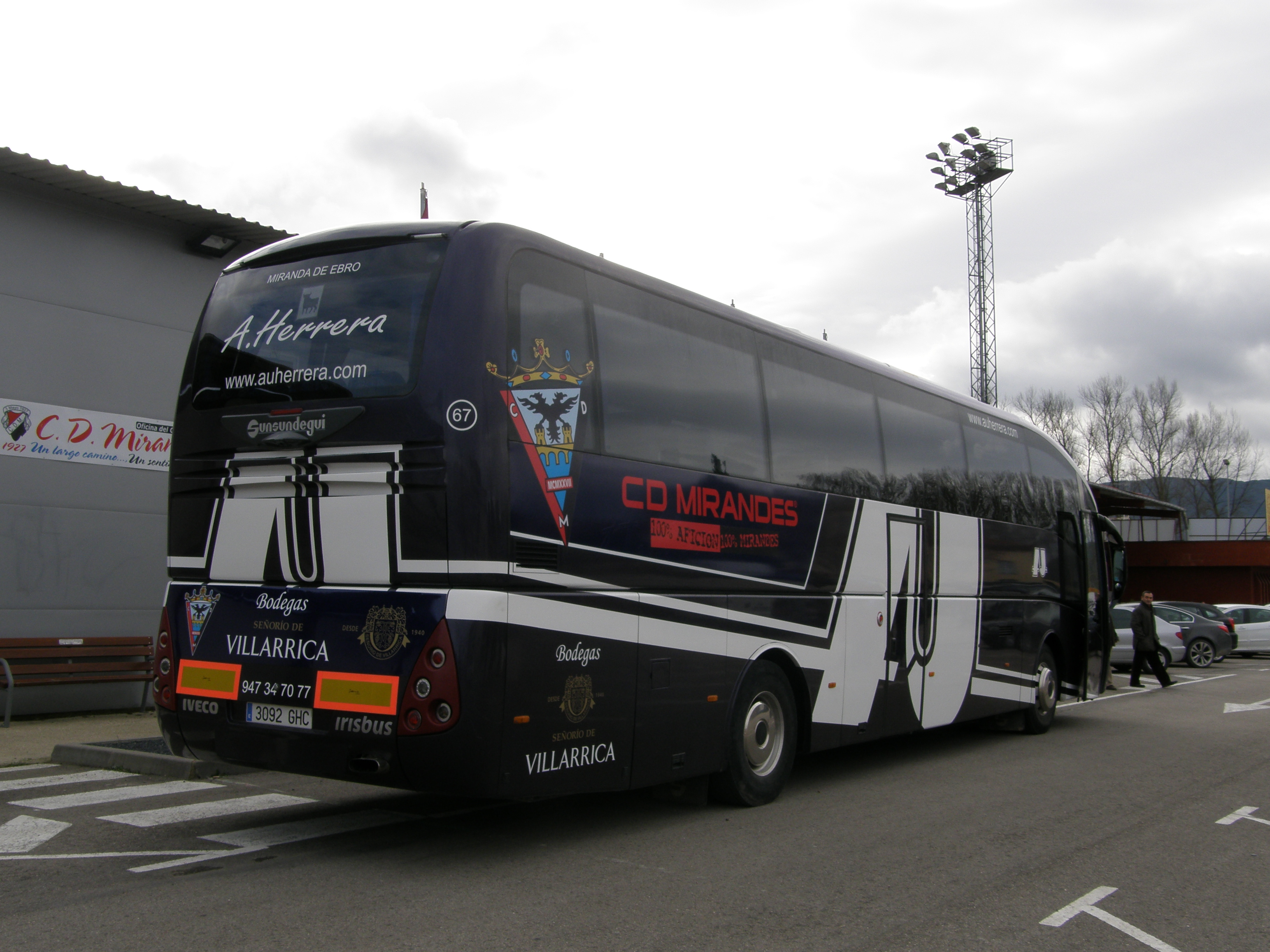 Sunsundegui coach with Irisbus chassis.